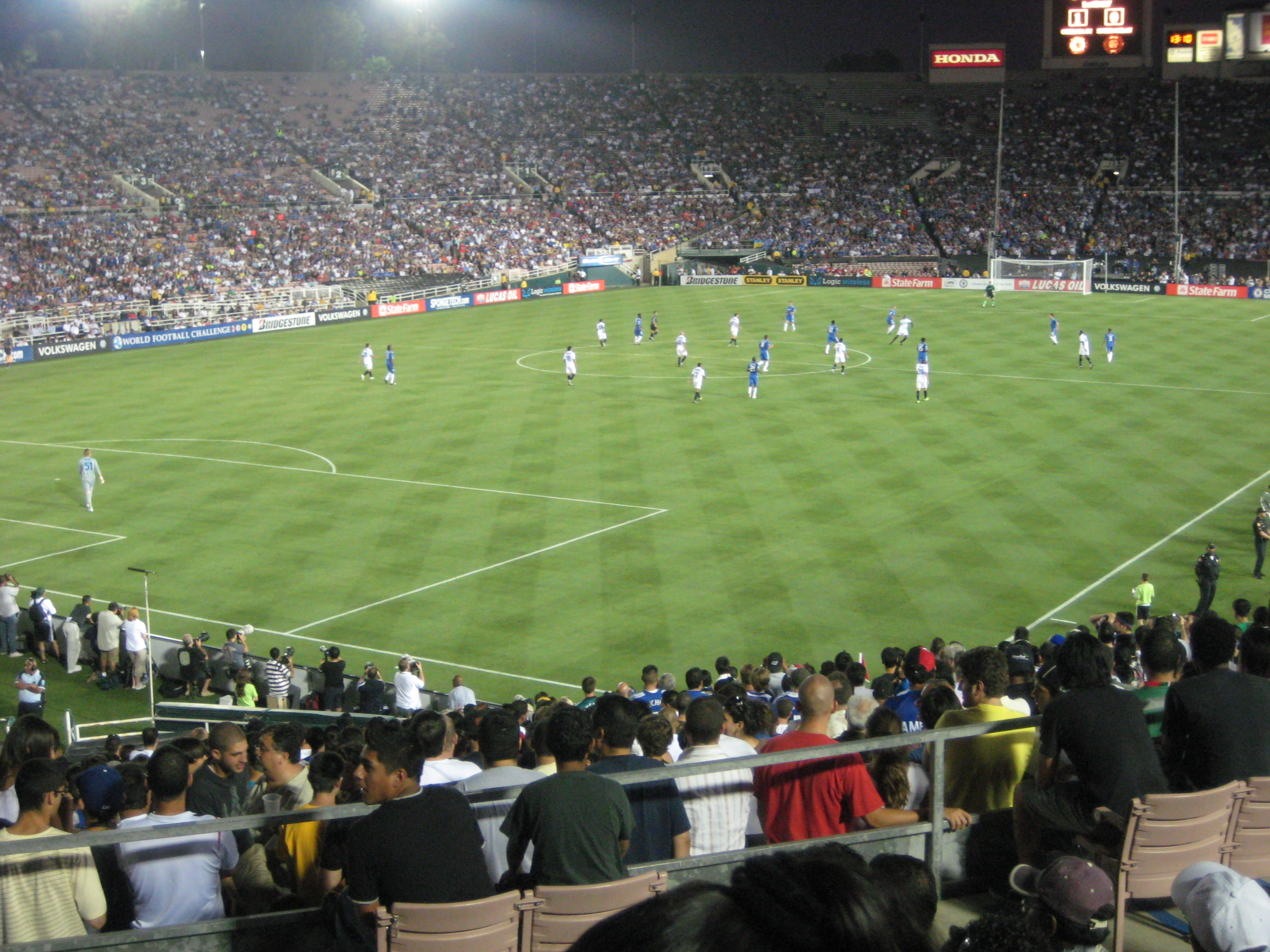 A wide shot of Inter vs Chelsea at the Rose Bowl in Pasadena, California, United States.